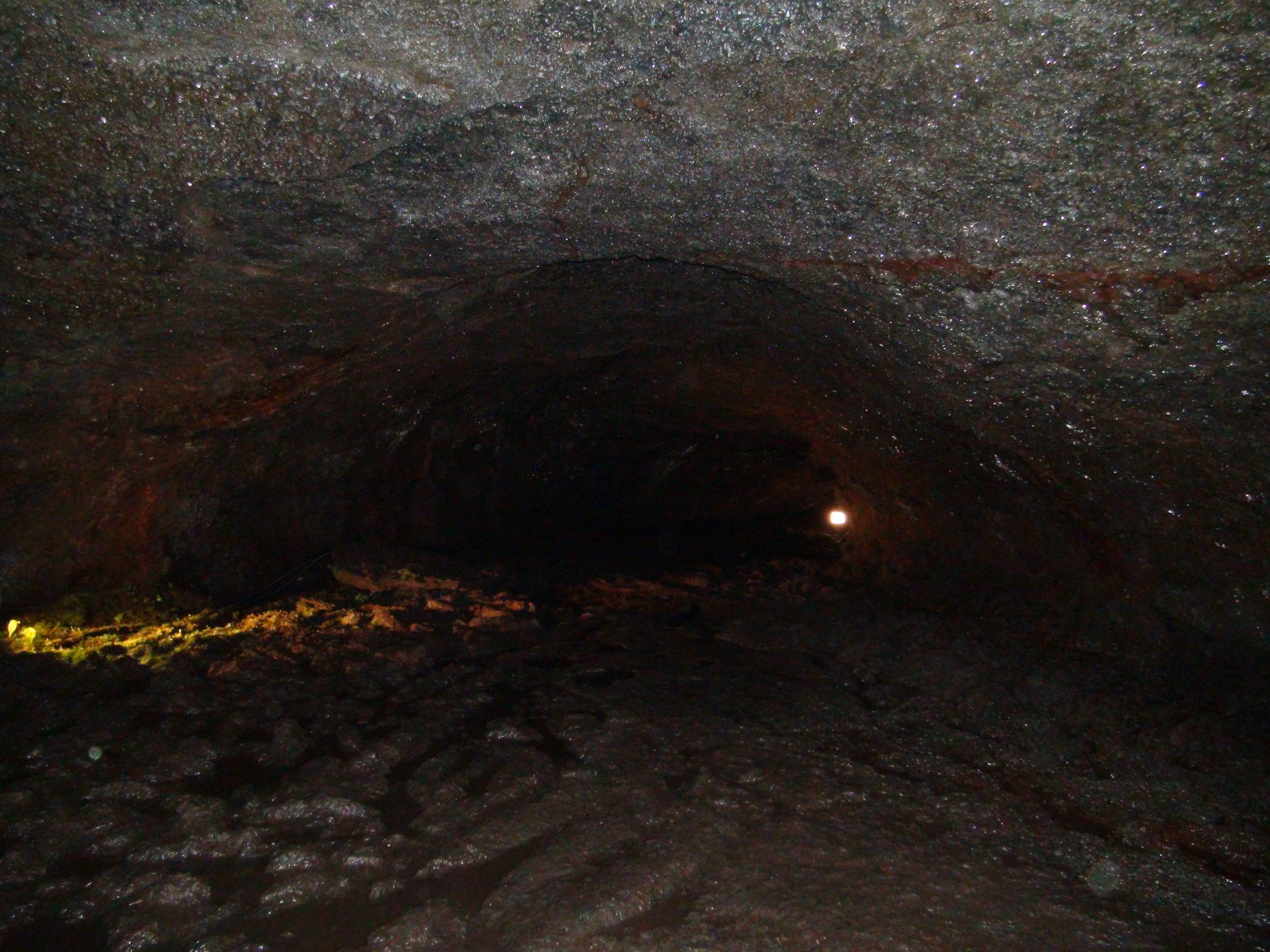 Inside the Lake Saiko Bat Cave